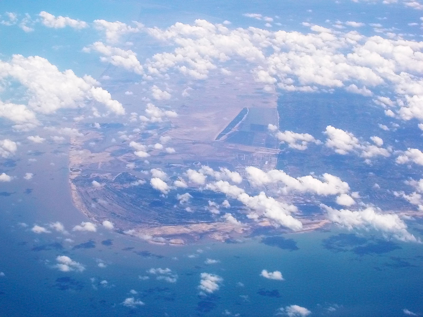 Aerial view of Point Calimere, taken while flying over Sri Lanka looking west.